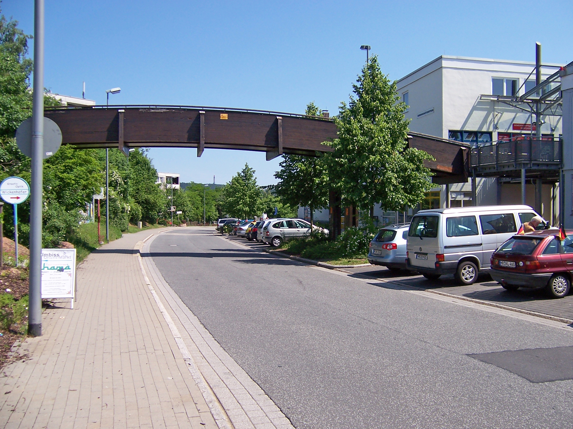 Bridge (by now replaced) at shopping centre of upper Richtsberg, Marburg